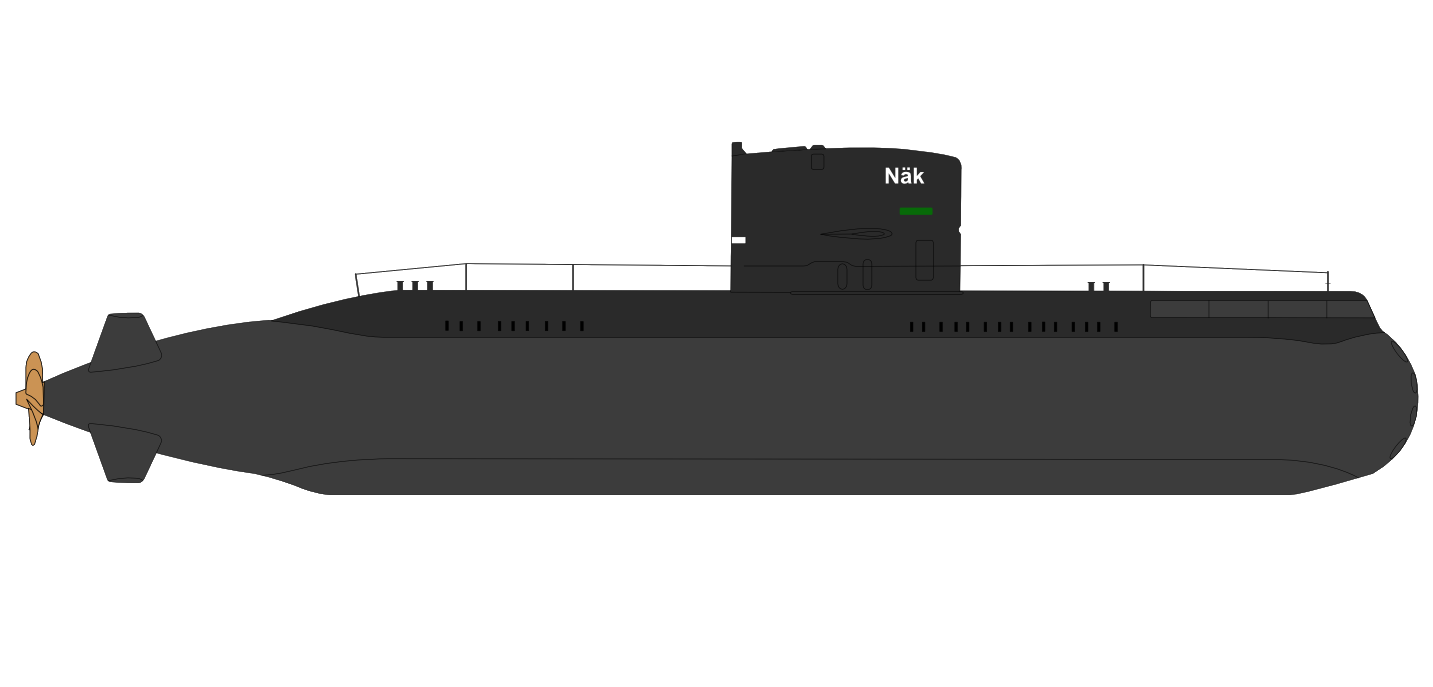 The Swedish submarine HMS Näcken in her original appearance.